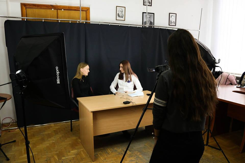 fftazh